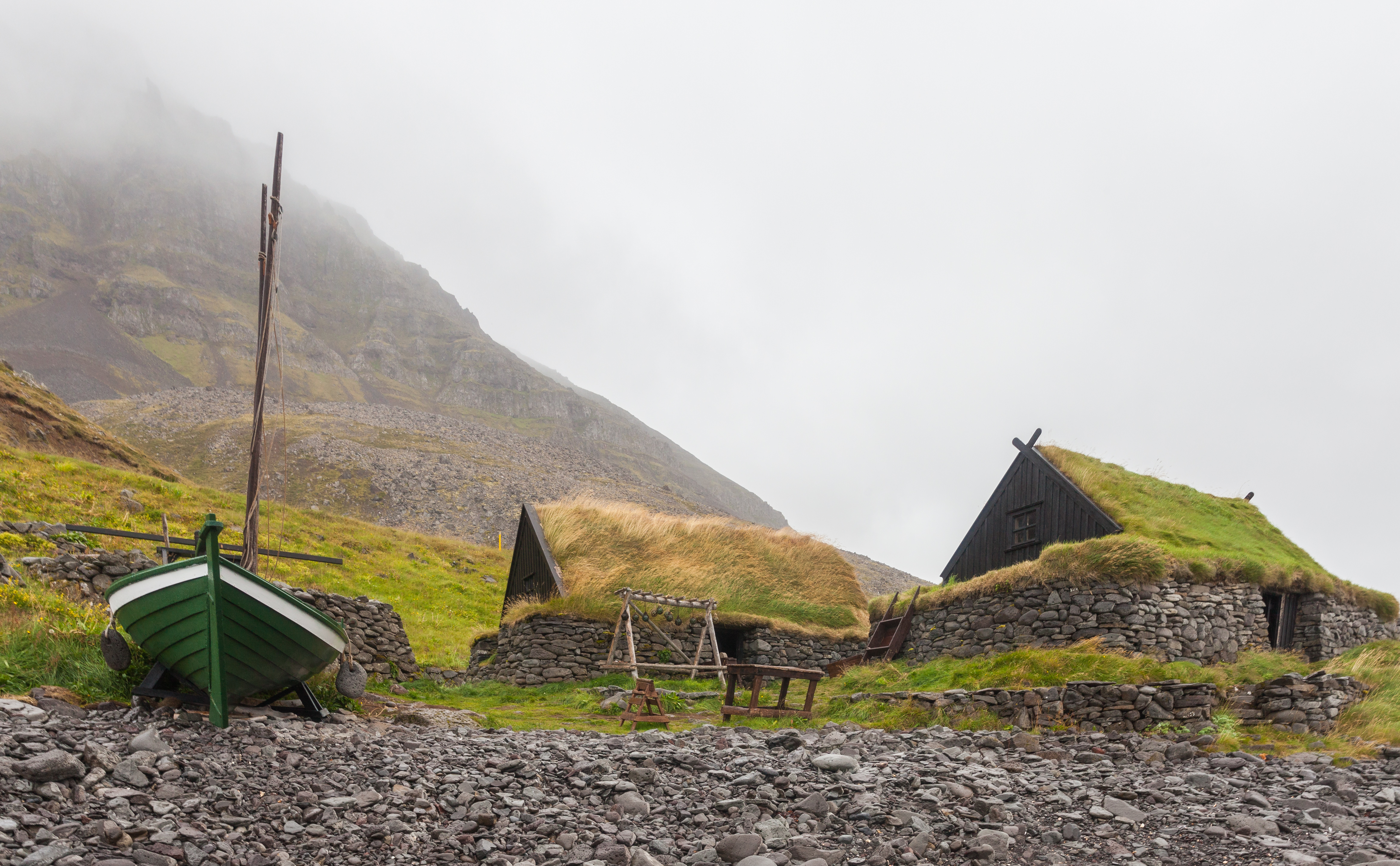 Ósvör maritime museum, Bolungarvík, Vestfirðir, Iceland.